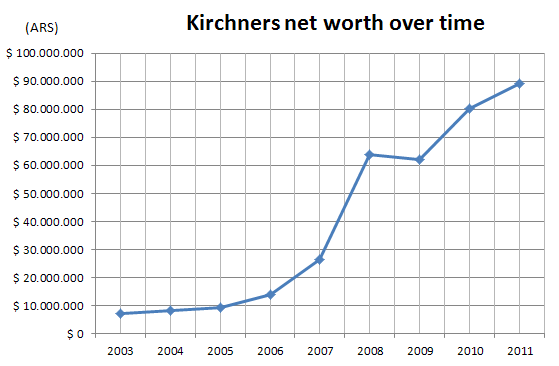 Cristina Fernandez de Kirchner and Néstor Kirchner net worth combined. The 2011 includes the heritage to the sons. It's based on Kirchner's sworn declaration. The chart was made with Microsoft Excel 2010. xlsx file